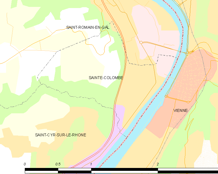 Map of French municipality